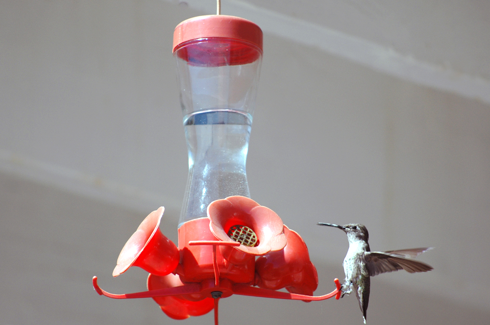 An Anna's Hummingbird photographed in San Diego, California